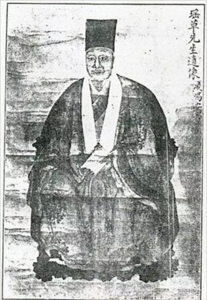 Ma Shi Ying, politician of the last Ming, Southern Ming Dynasty.